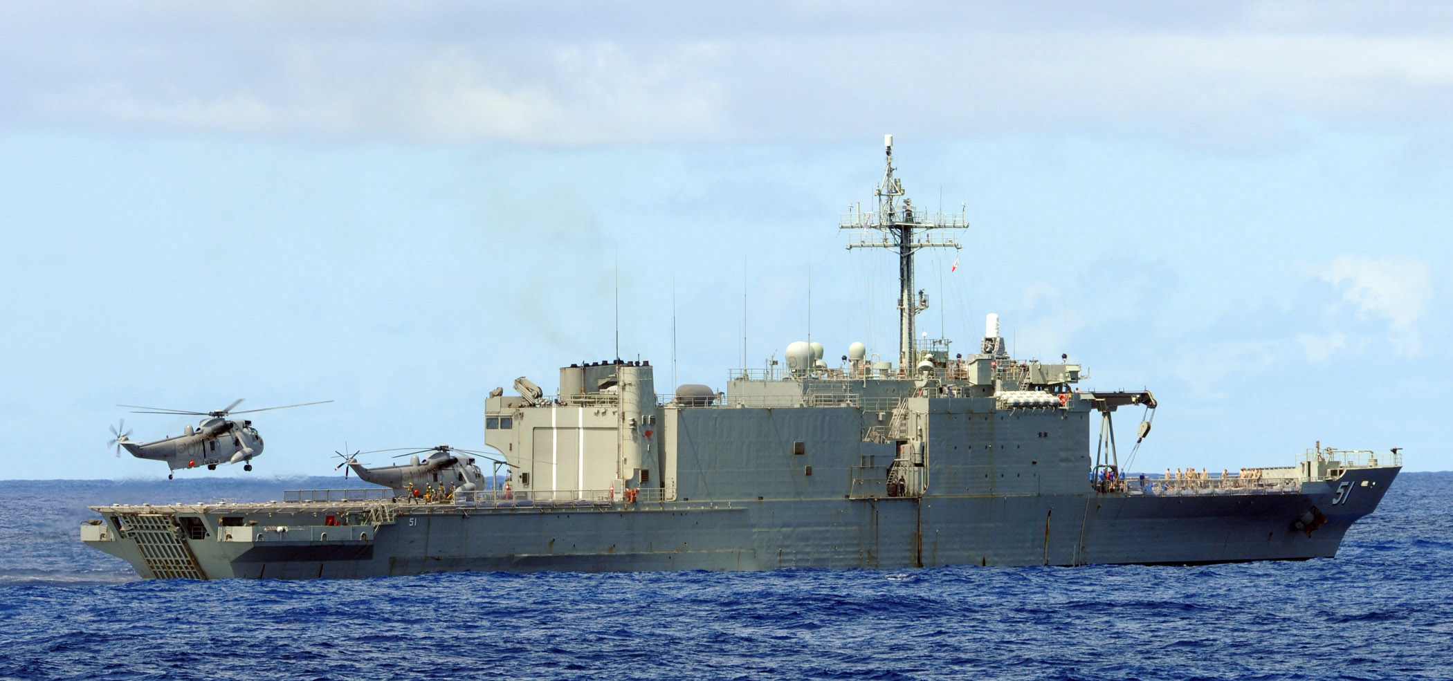 PACIFIC OCEAN (July 13, 2010) A Royal Australian Navy Sea King helicopter lands on the aft flight deck of the Royal Australian Navy amphibious ship HMAS Kanimbla (L 51) during the at-sea phase of Rim of the Pacific (RIMPAC) 2010 exercises. RIMPAC is a biennial, multinational exercise designed to strengthen regional partnerships and improve interoperability. (U.S. Navy photo by Lt. Ed Early/Released)